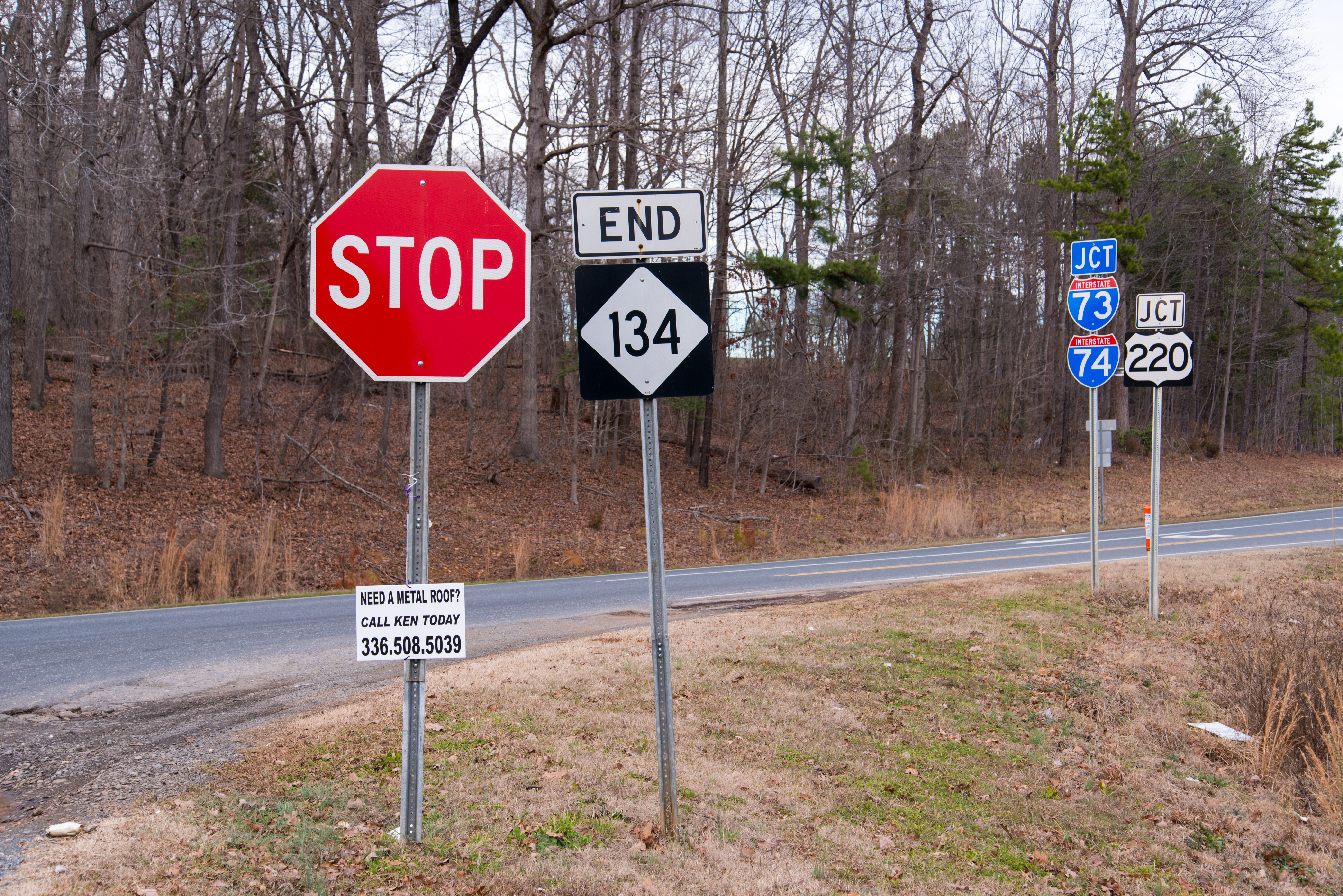 End of North Carolina Highway 134, along Dawson Miller Road, nearby I-73/I-74/US 220.